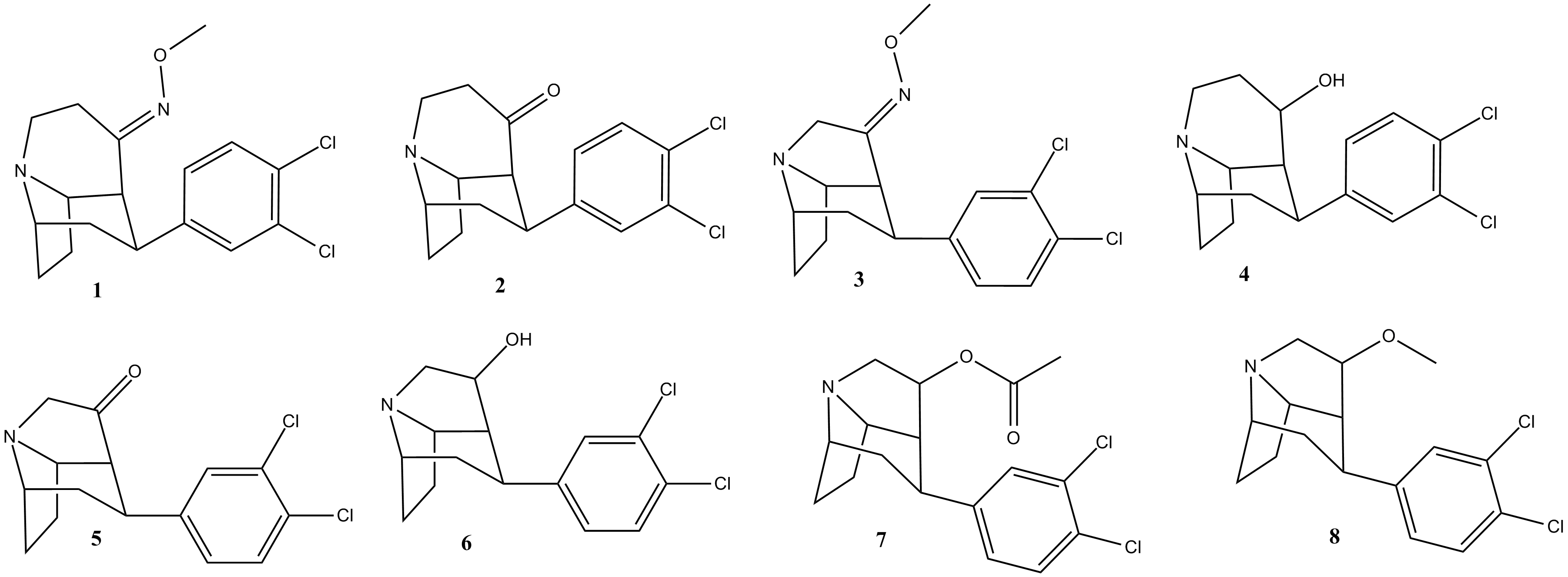 US5998405